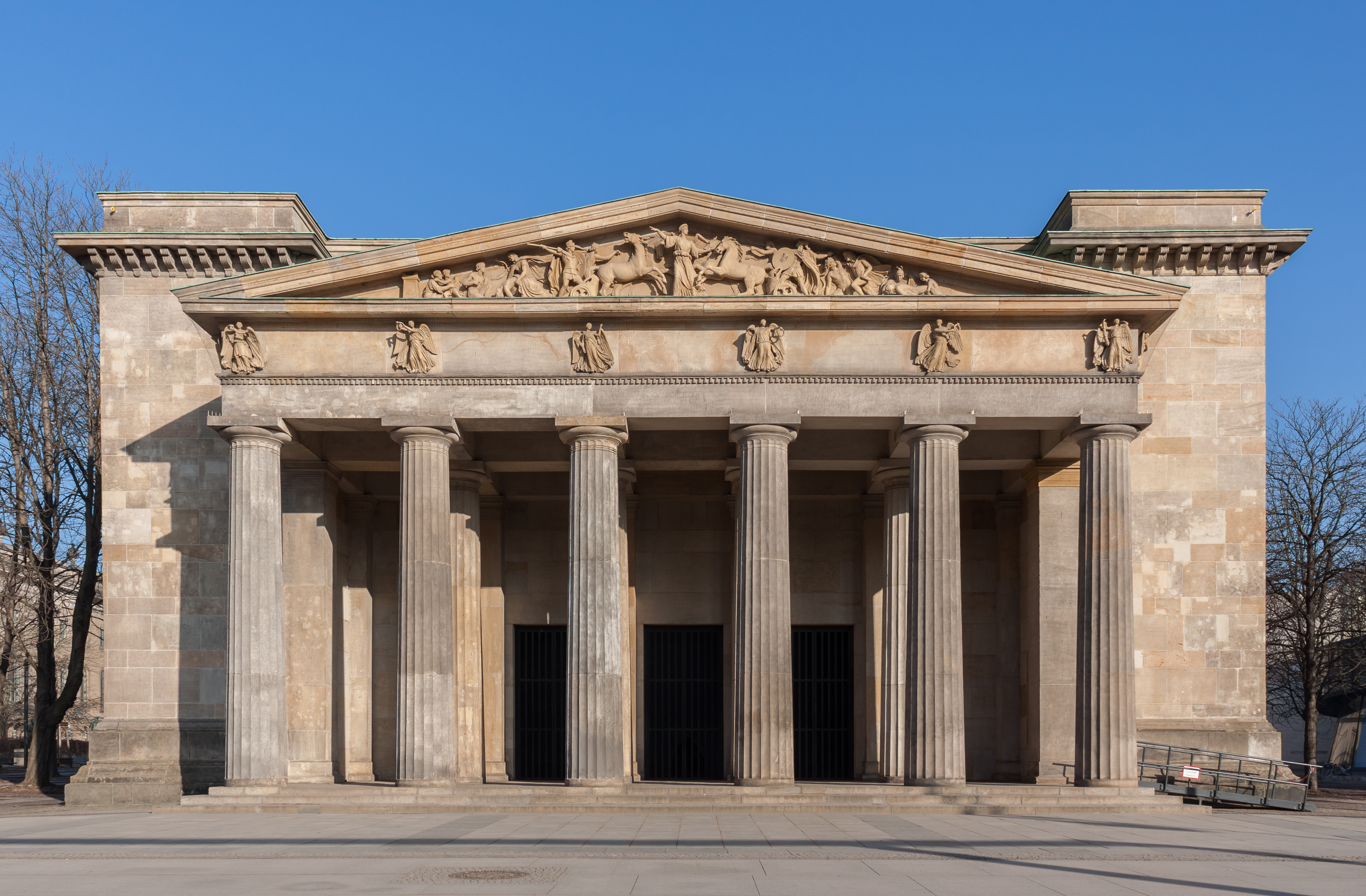 The Neue Wache in Berlin-Mitte (Unter den Linden). It is one of the masterpieces of German classicism and was designed by Karl Friedrich Schinkel. Nowadays it's the Central Memorial of the Federal Republic of Germany for the victims of war and tyranny.